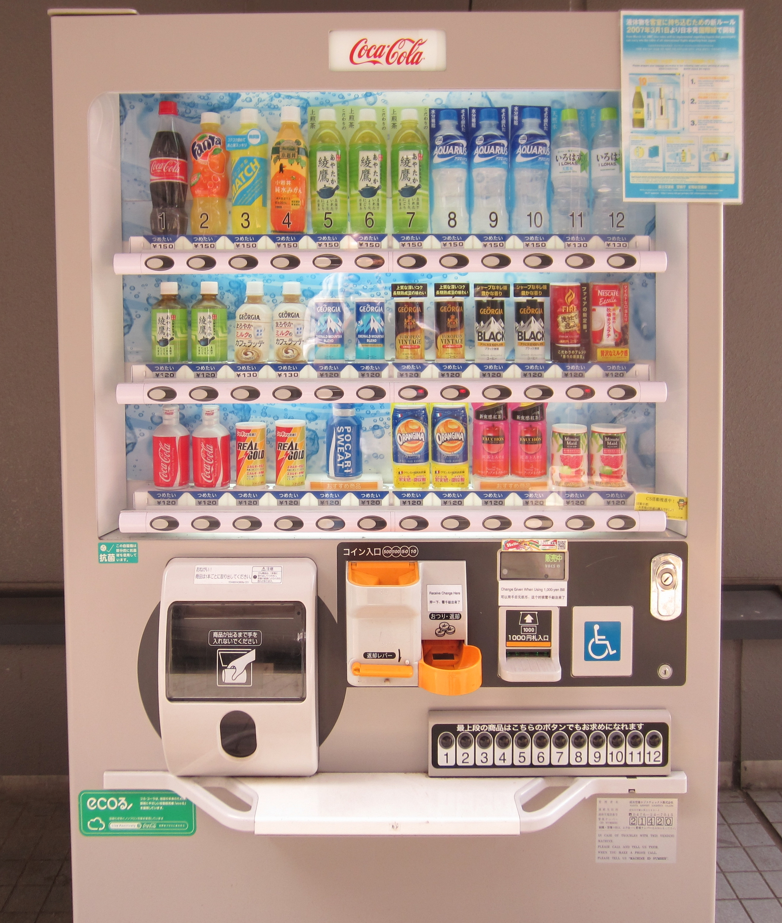 I just thought it was cool they had buttons on the bottoms for short people.